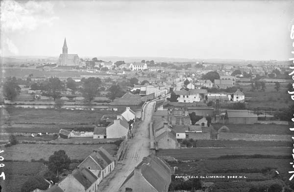 Photograph taken between 1880 and 1914 Part of: National Library of Ireland Lawrence Collection. For more photographs in this collection see National Library of Ireland catalogue: Reference number: L_CAB_09082